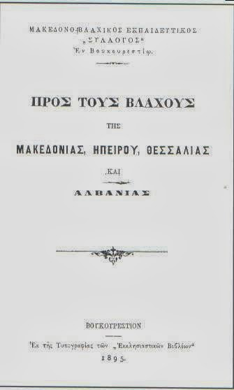 For the Vlachs